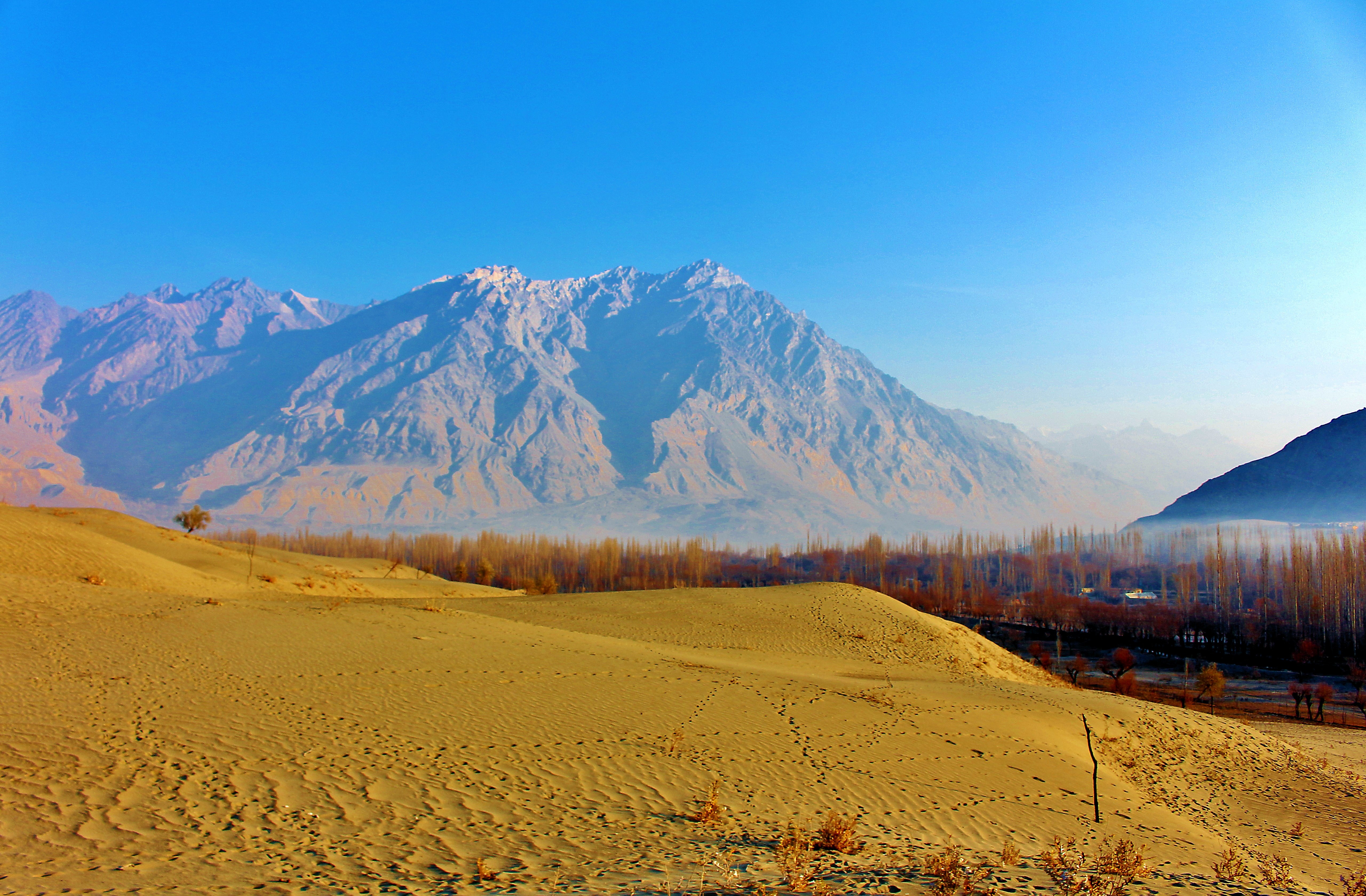 A view of sand dunes in Skardu’s Katpana Desert